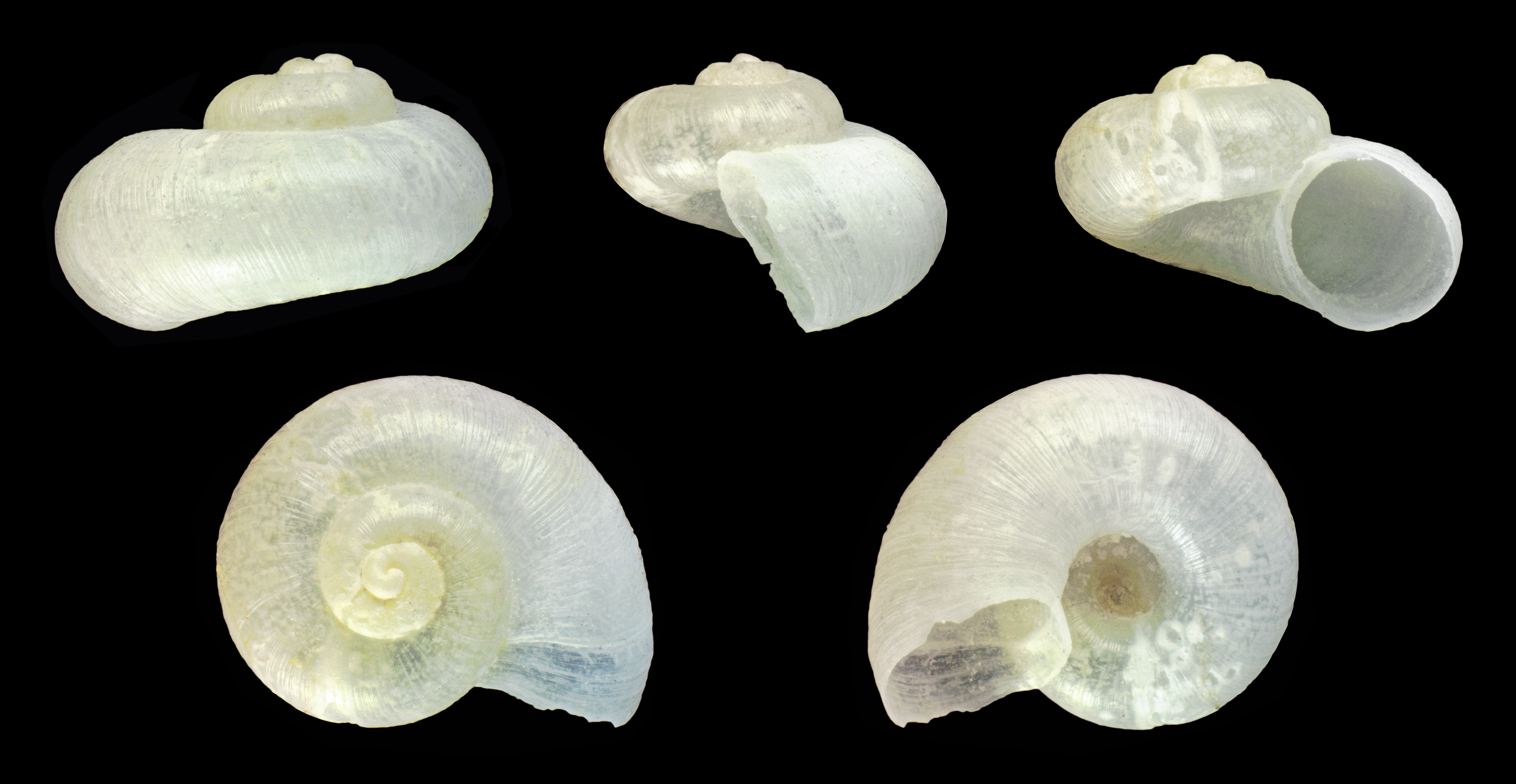 Valvata macrostoma Mörch, 1864; Diameter 0.4 cm; Originating from the Lake Kournas, Crete, Greece. Shell of own collection, therefore not geocoded.